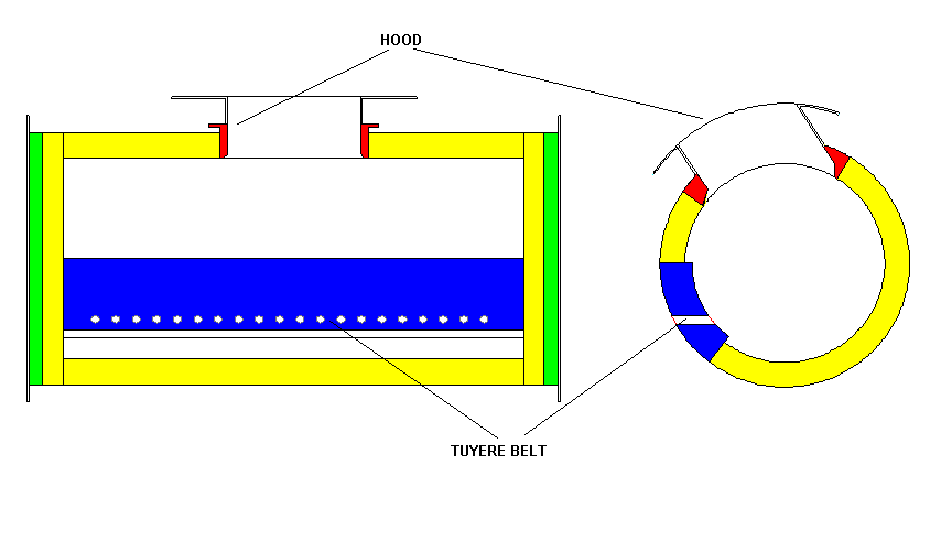 The Pierce-Smith metallurgical converter.